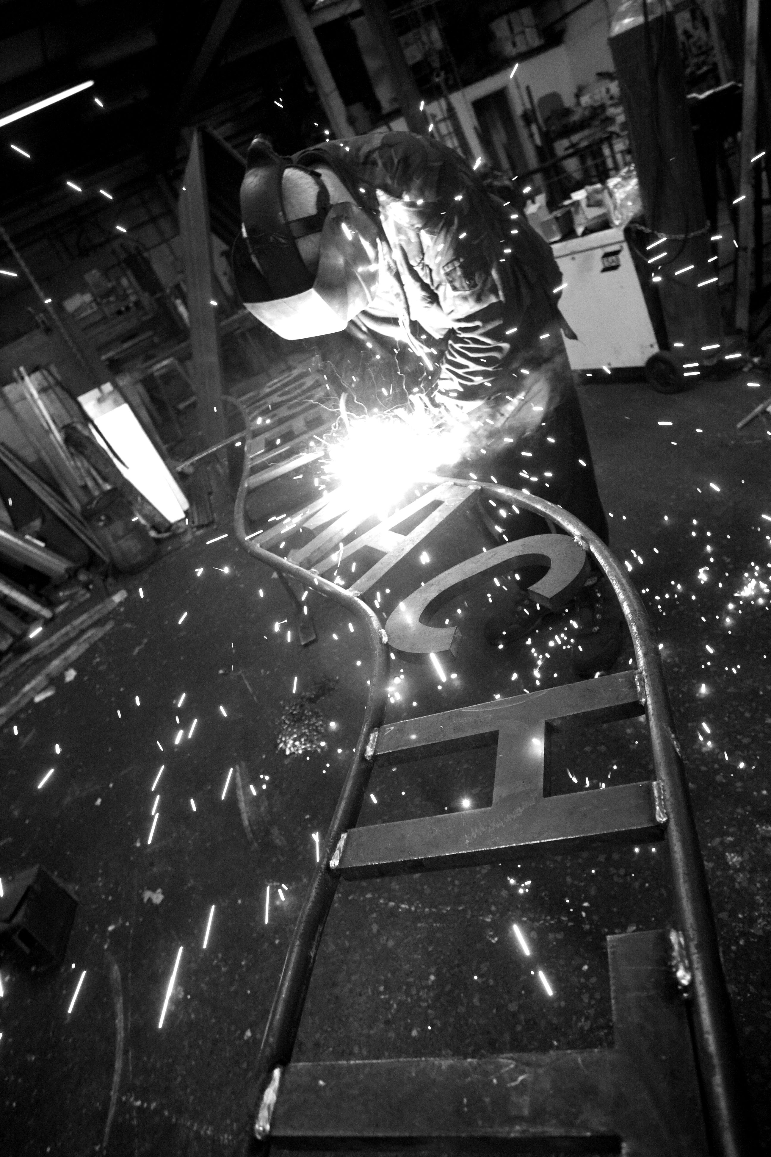 Artwork called "B for Defiance" by artist David Garner